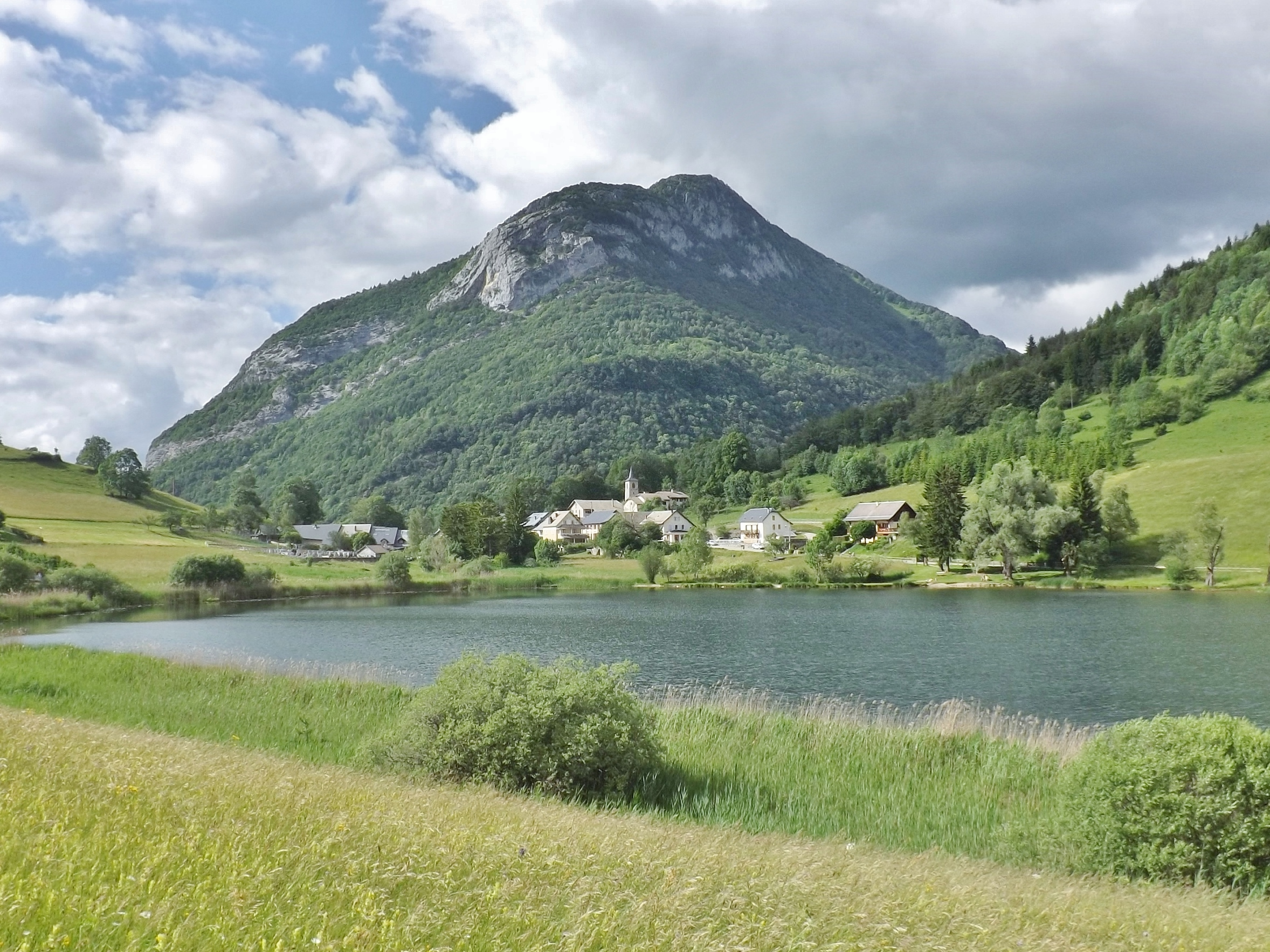 Sight of the main village of the French commune of La Thuile and the lac de la Thuile lake, in the Bauges mountains, in Savoie.